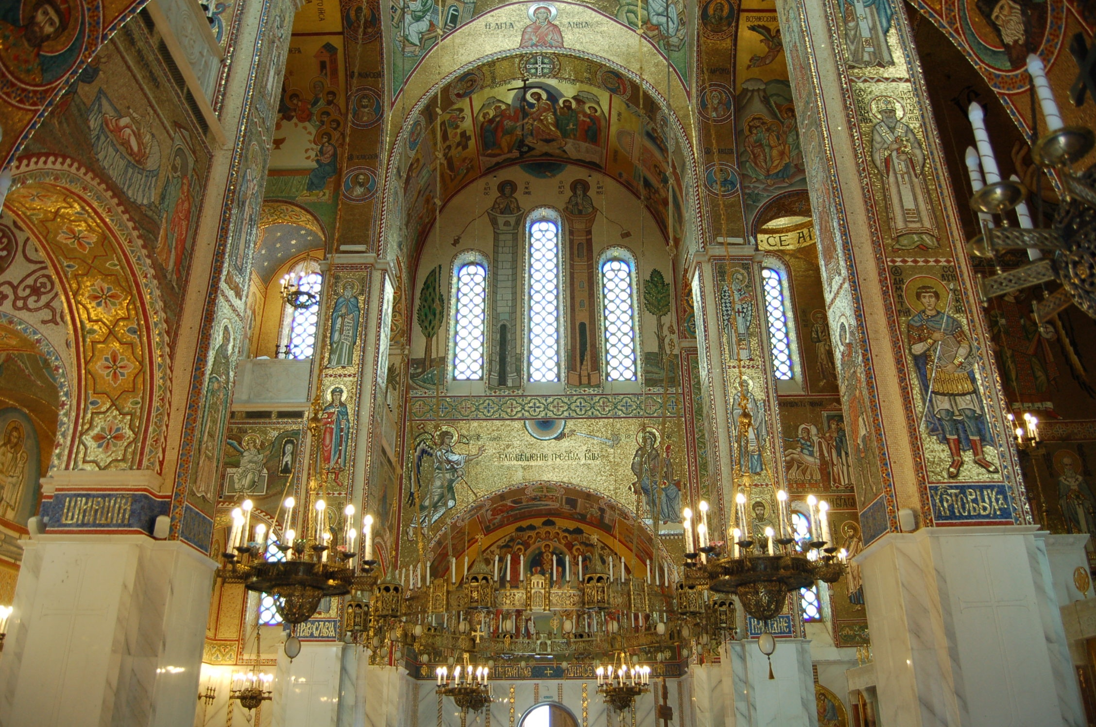 Moscow Churches, photographed September 2015 Church of the Protection of the Mother of God, Yasenevo (photographed while still under construction)